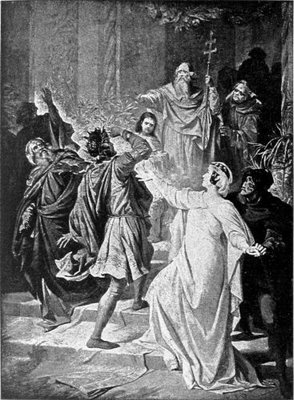 Scene from act IV of Wagner's opera Rienzi